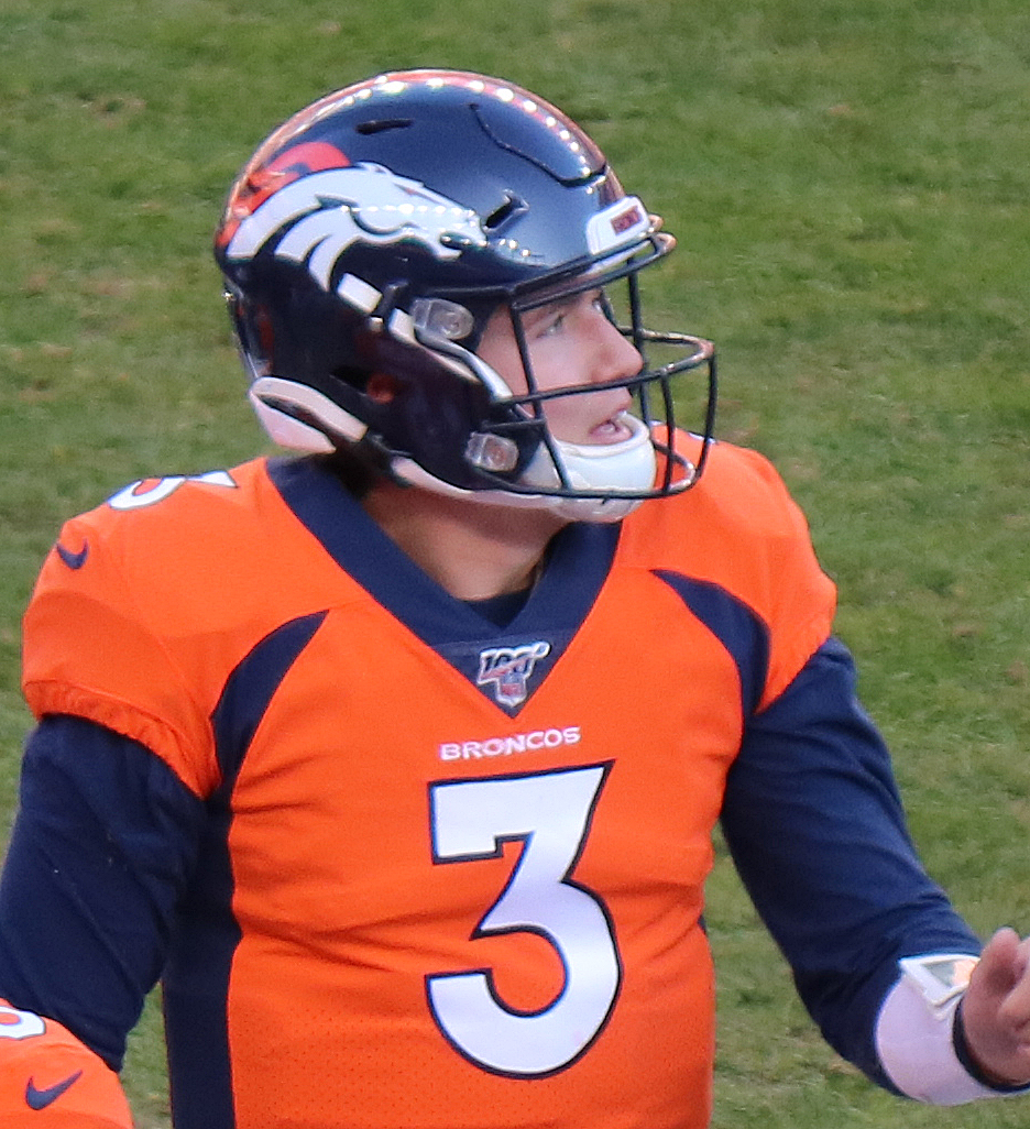 Drew Lock, a National Football League player.